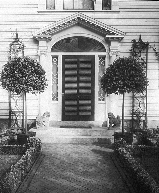 House of Benjamin Pitman in Brookline, Massachusetts. Pitman married a Hawaiian noble Kino'ole in Hilo. After both she and his second wife died, he moved back to the area of his birth.